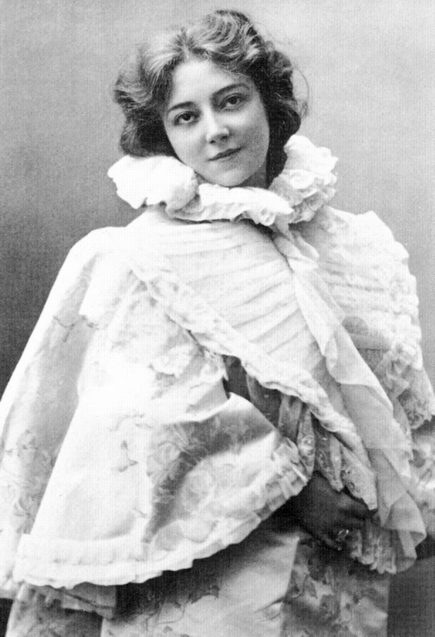 Anna Held (1872-1918) "This beauty queen (The book is wrong, she is Anna Held) hides under a lavish cape from 1902. Long coats and skating outfits were some-times topped with a short, matching cape thrown over the shoulders. This one may have been part of a tea gown ensemble -- long loose dresses and wraps women relaxed in, without corsets, before dinner." Scanned and quoted from the book "Decades of Fashion" by Harriet Worsley.